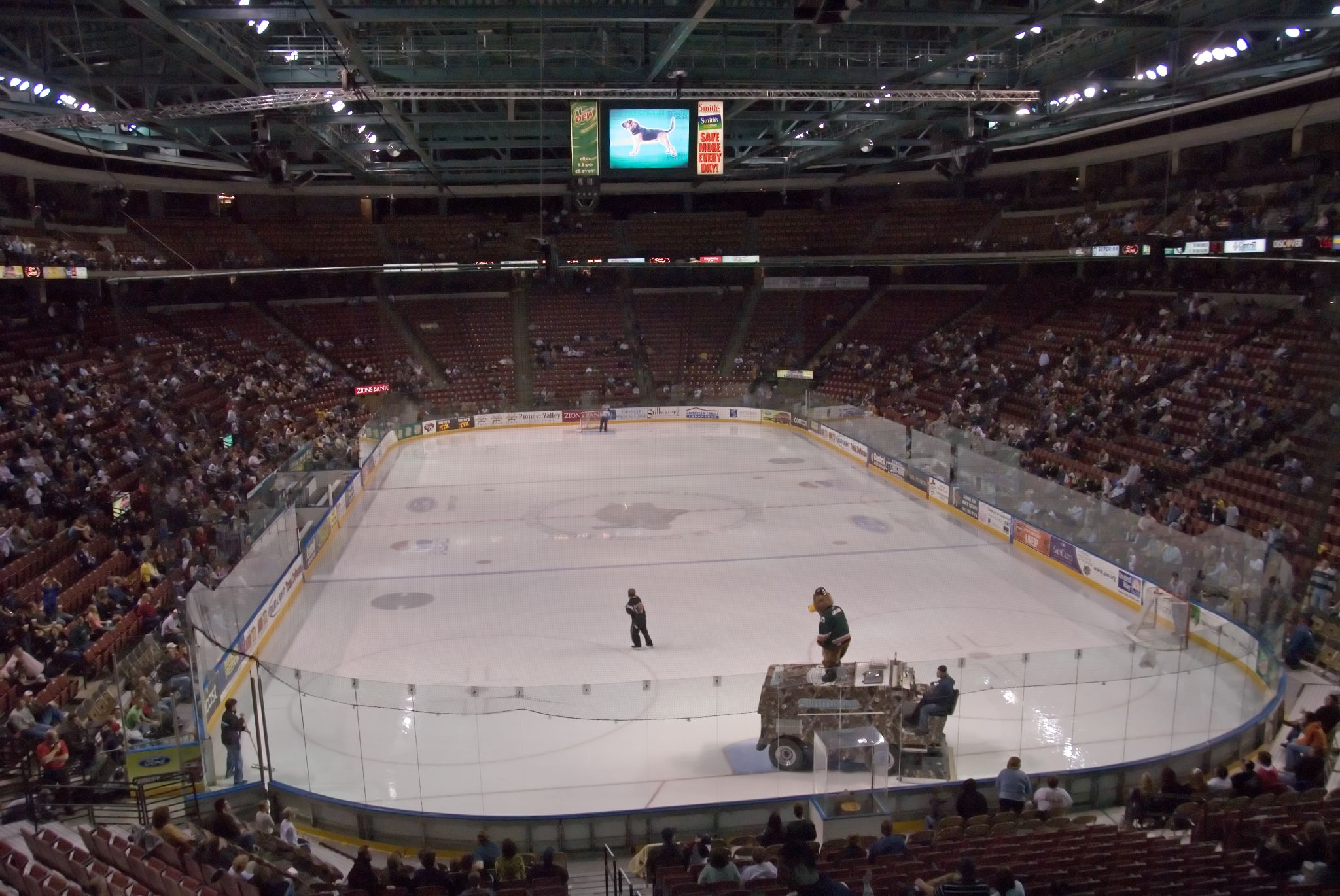 Intermission at the E Center with Grizzbee taking a ride on the Zamboni.